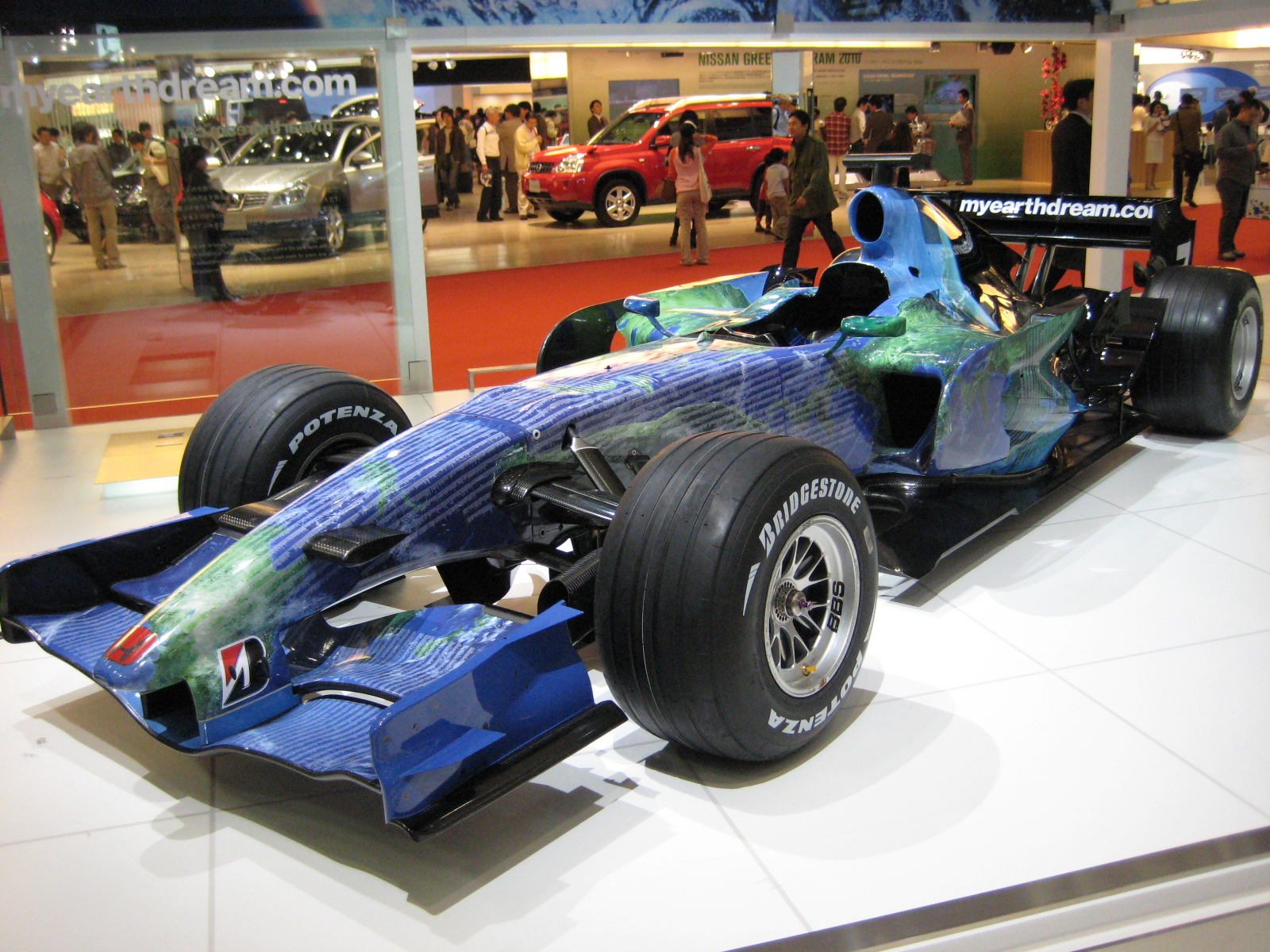 Honda RA107 in Tokyo Motor Show 2007